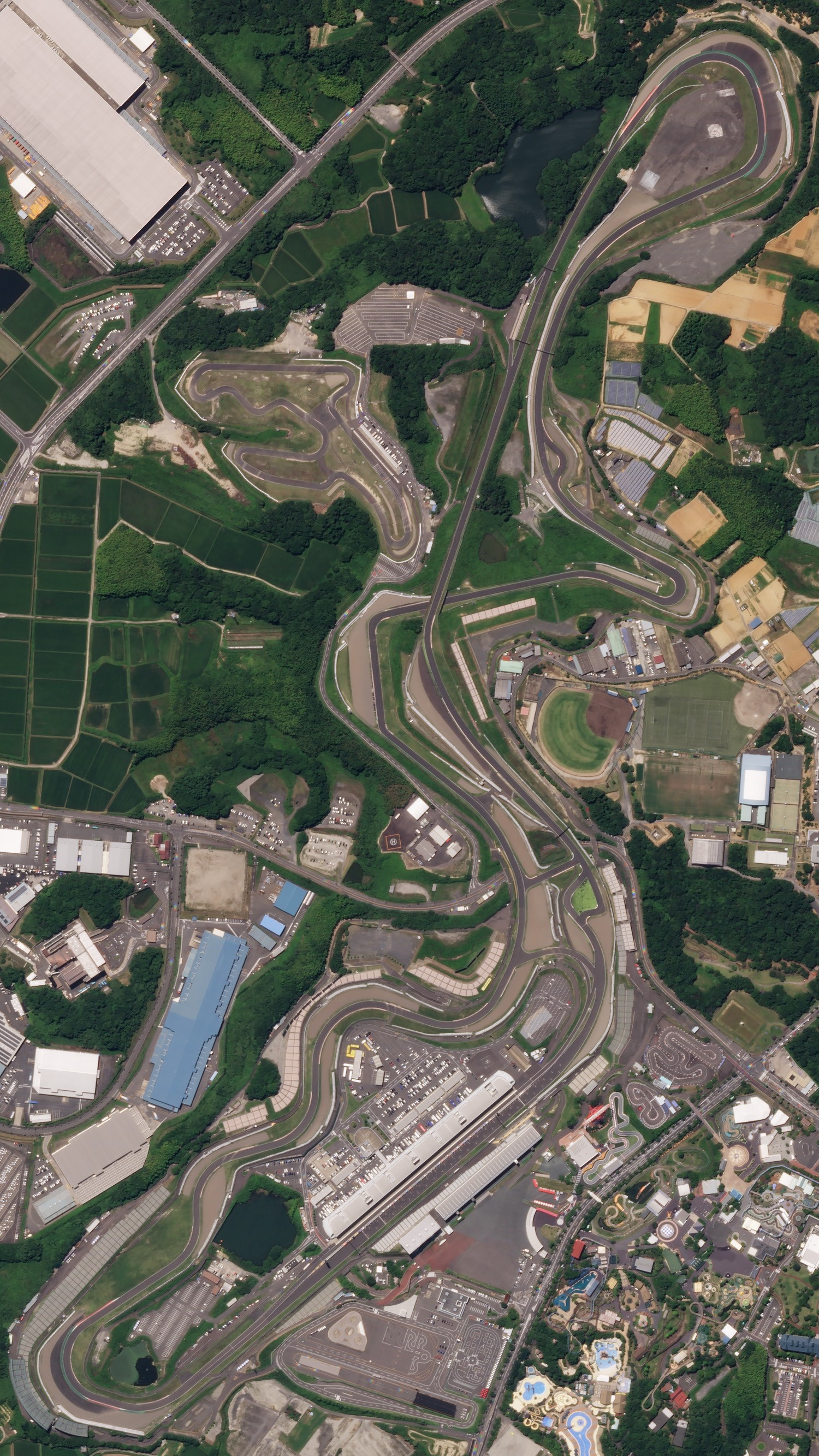 The Suzuka International Racing Course, a motorsport race track located in Ino, Suzuka City|, Mie Prefecture, Japan and home of the Japanese Grand Prix since 1987. Image taken on July 10, 2018, by a Planet Labs SkySat satellite.